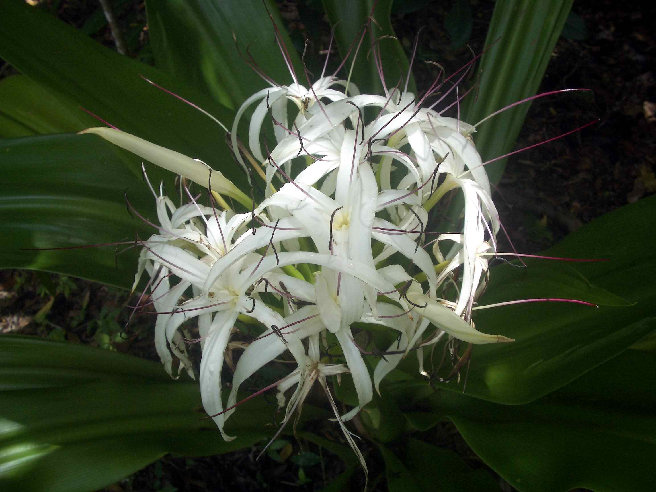 Crinum asiaticum. I took this photo myself. John E. Hill 05:42, 18 February 2007 (UTC)